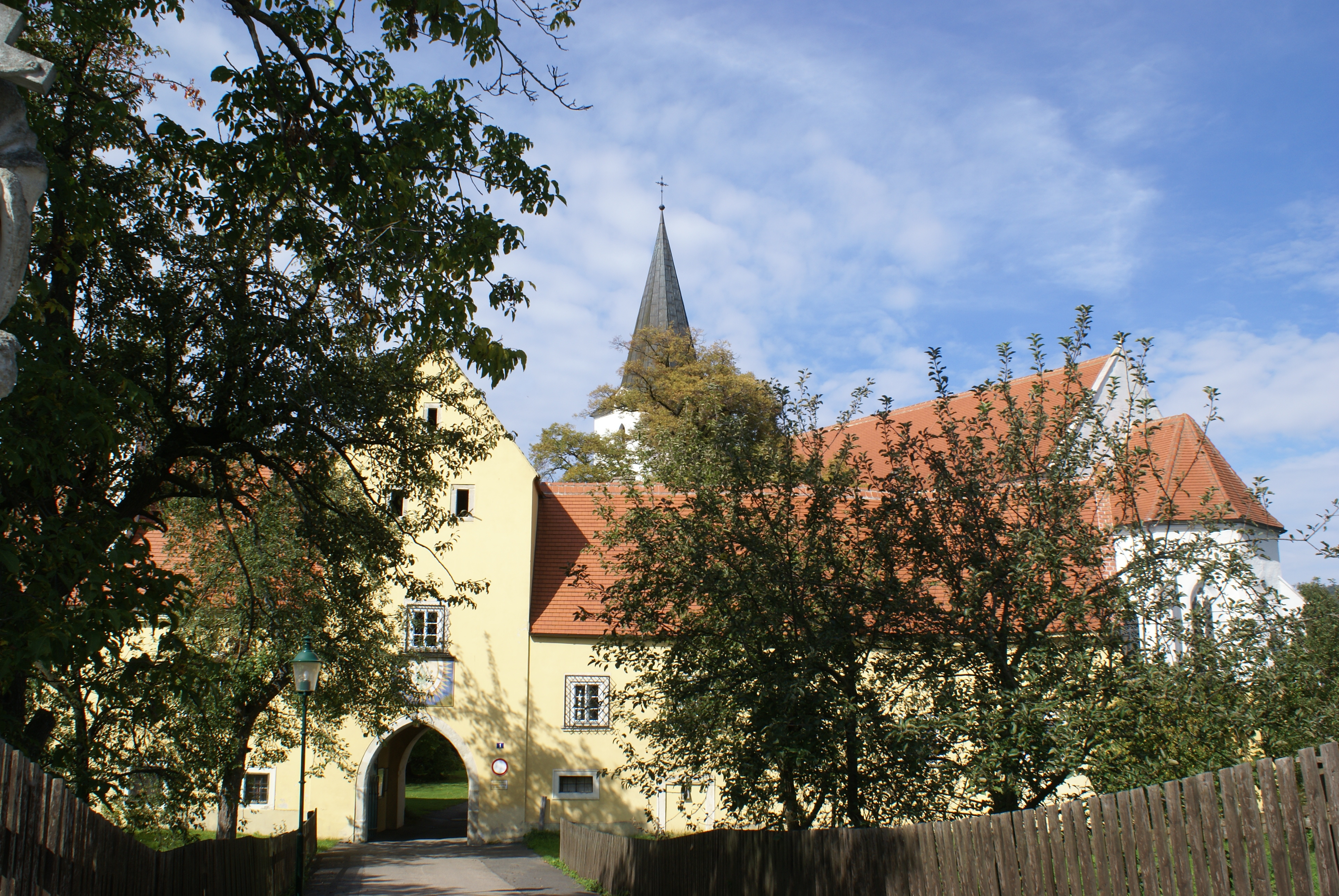 Monastery of Saint Bernhard